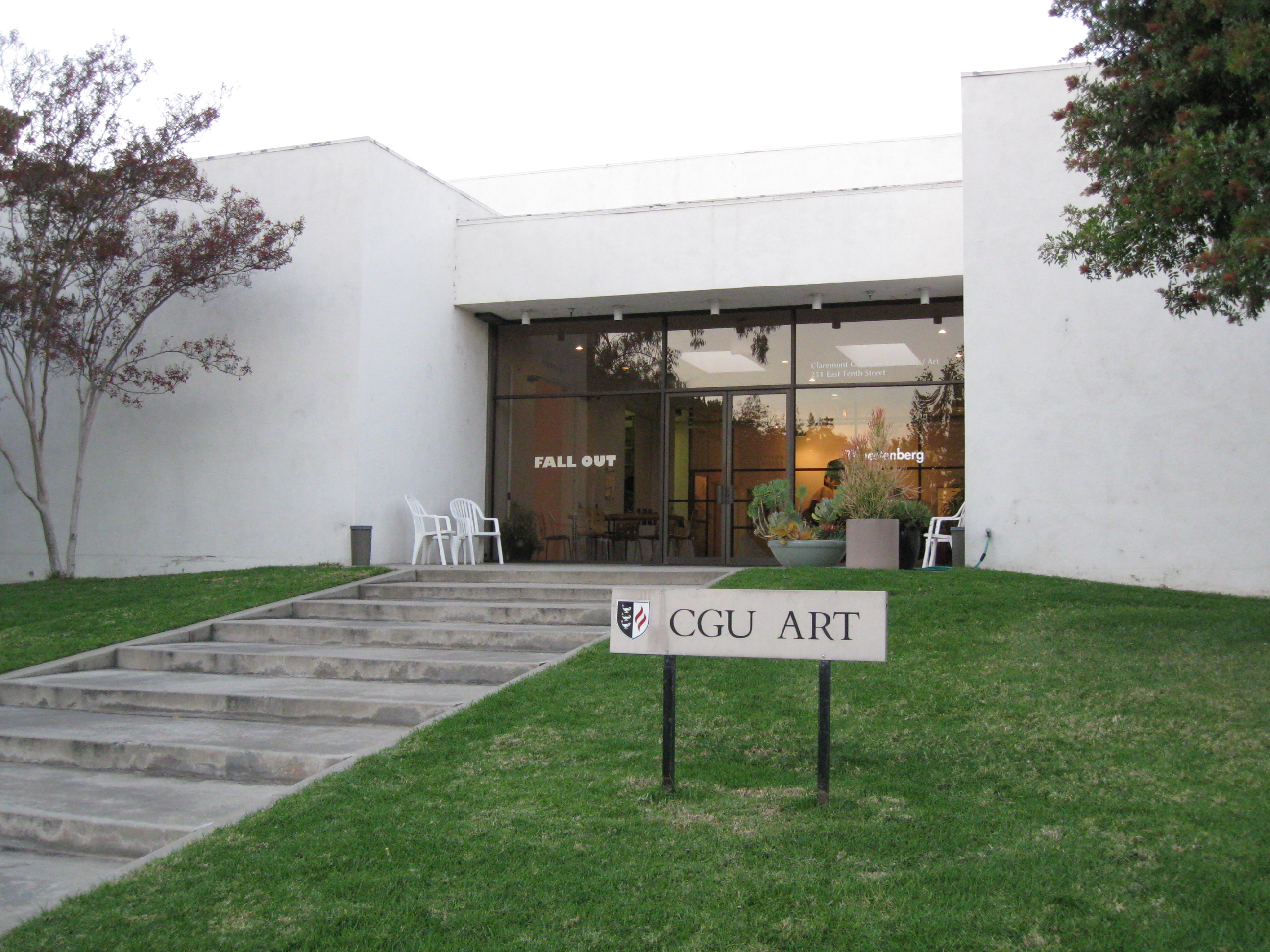 CGU Art Department